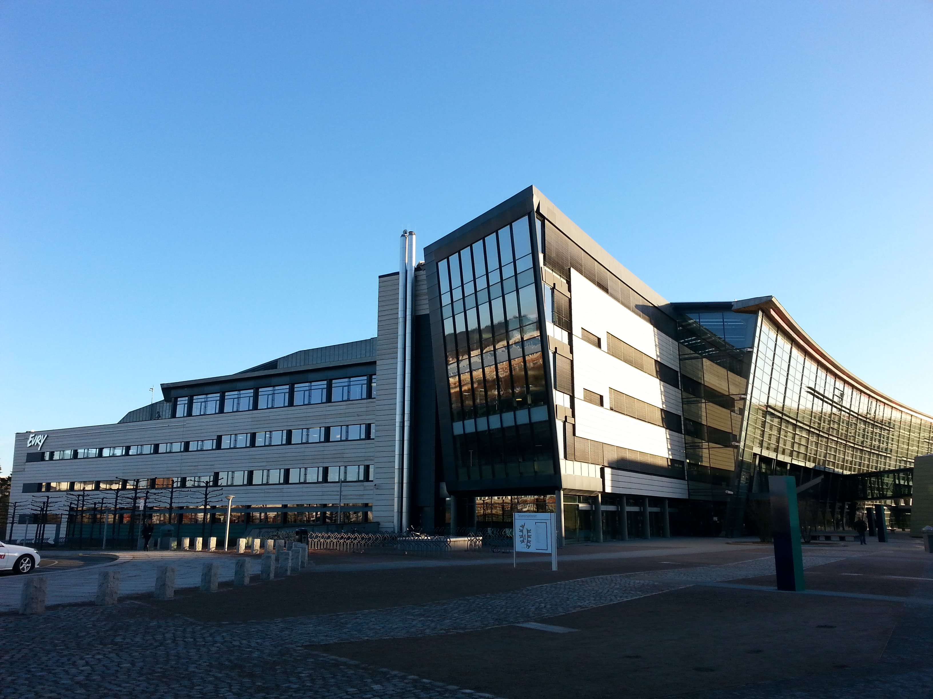 Norwegian IT company EVRY, located in Fornebu, Bærum kommune.